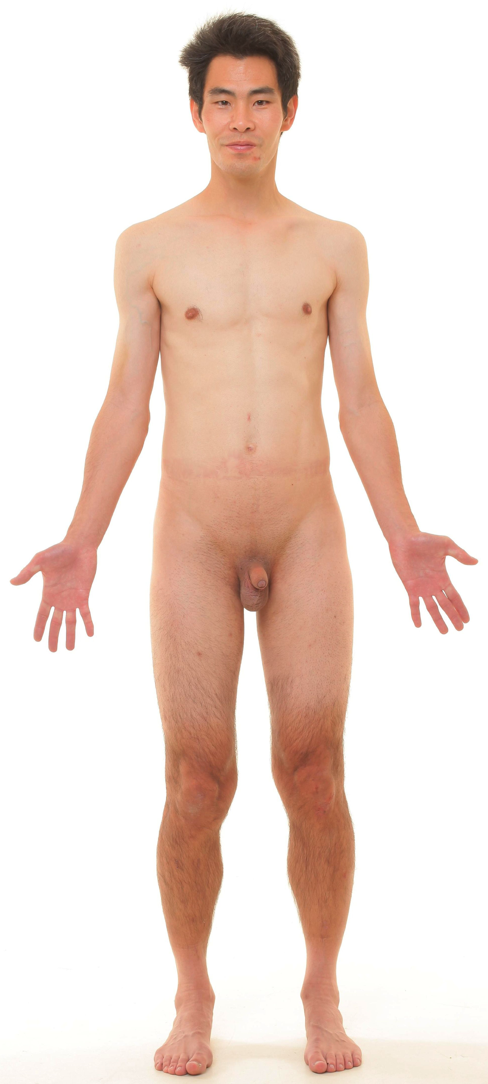 Naked male human body